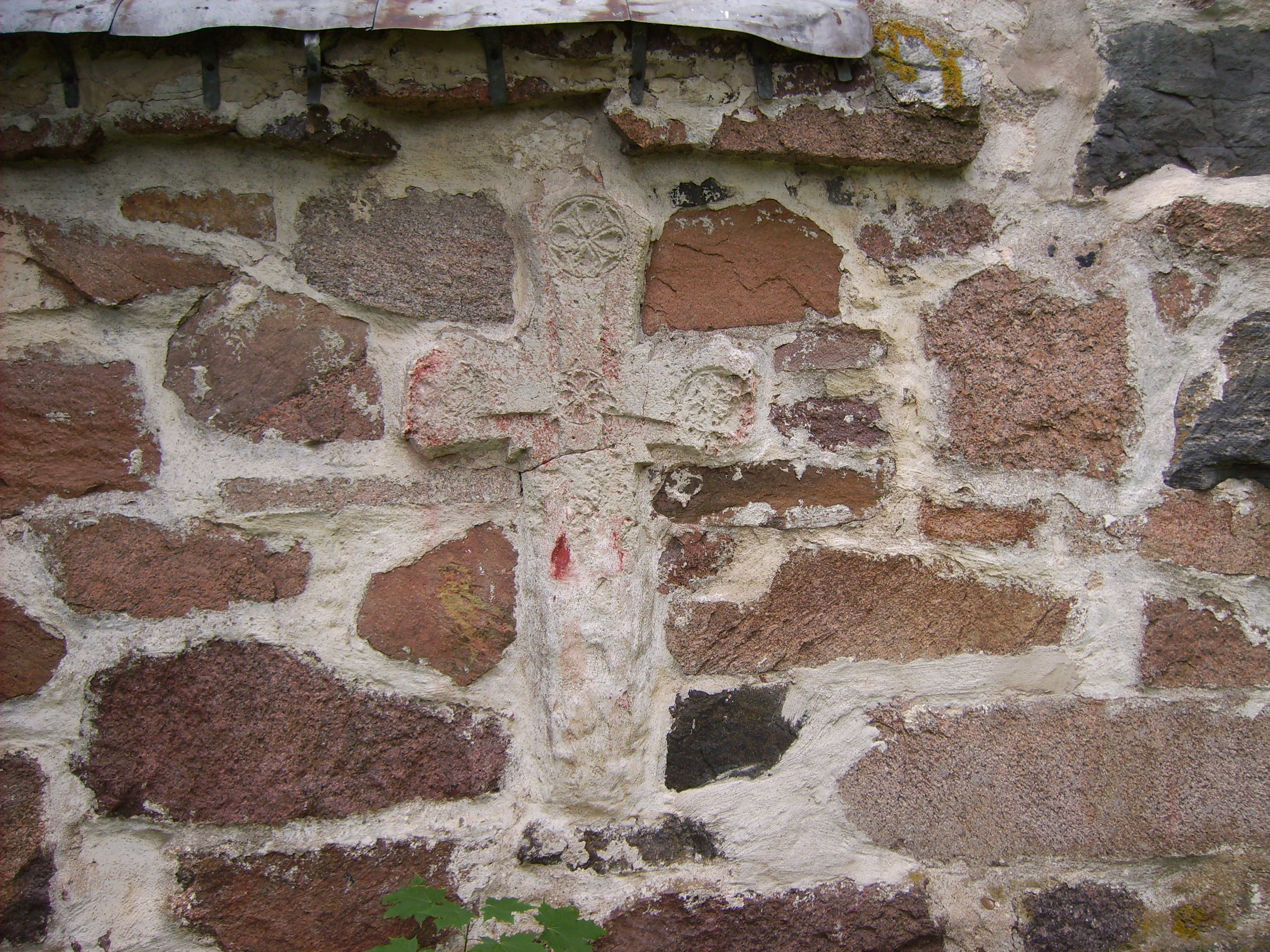 The medieval church in Korpo, Finland